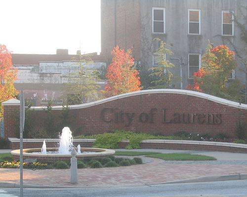 Gateway Park on U.S. 221 at the intersection with Laurens St. The park was constructed in the late 1990s-early 2000s and is on a former parking lot behind Laurens City Hall.